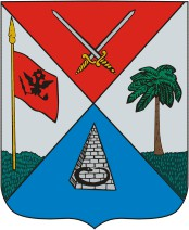 Old emblem of Poltava